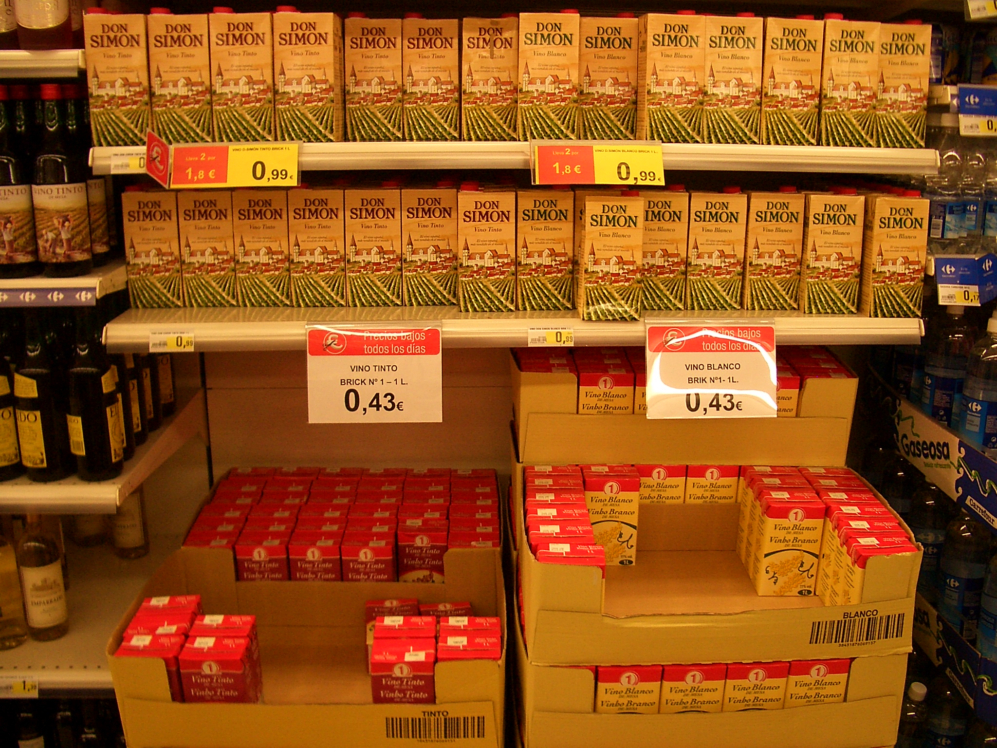 Inexpensive red wine sold in a supermarket in Vitoria